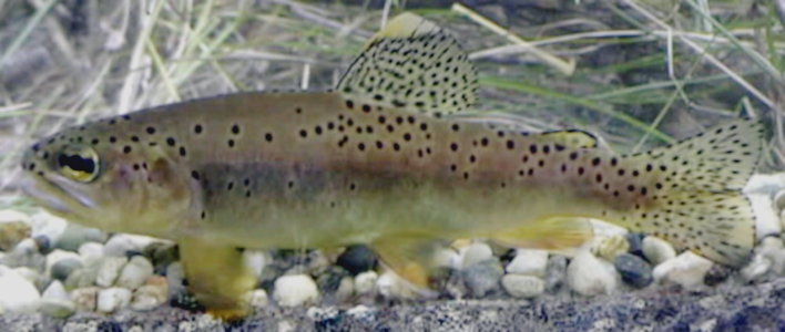 USFWS Headquarters Status: Threatened Photo credit: Joe DiSilvestro